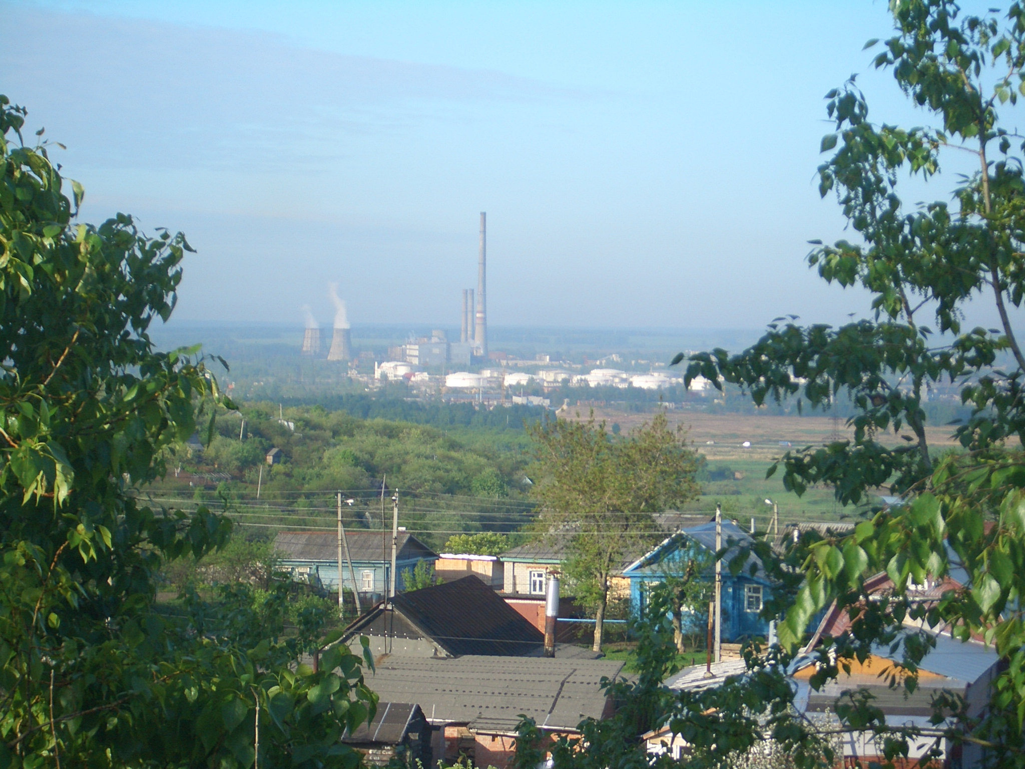 Nogorkovskaya Cogeneration plant can be seen from the city of Kstovo, which it supplies with heat